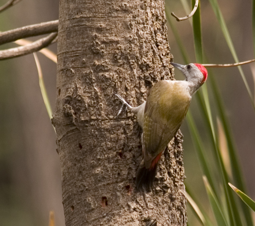 Grey Woodpecker Dendropicos goertae (syn. Mesopicos goertae) at Parc Forestier de Hann, Dakar, Senegal.